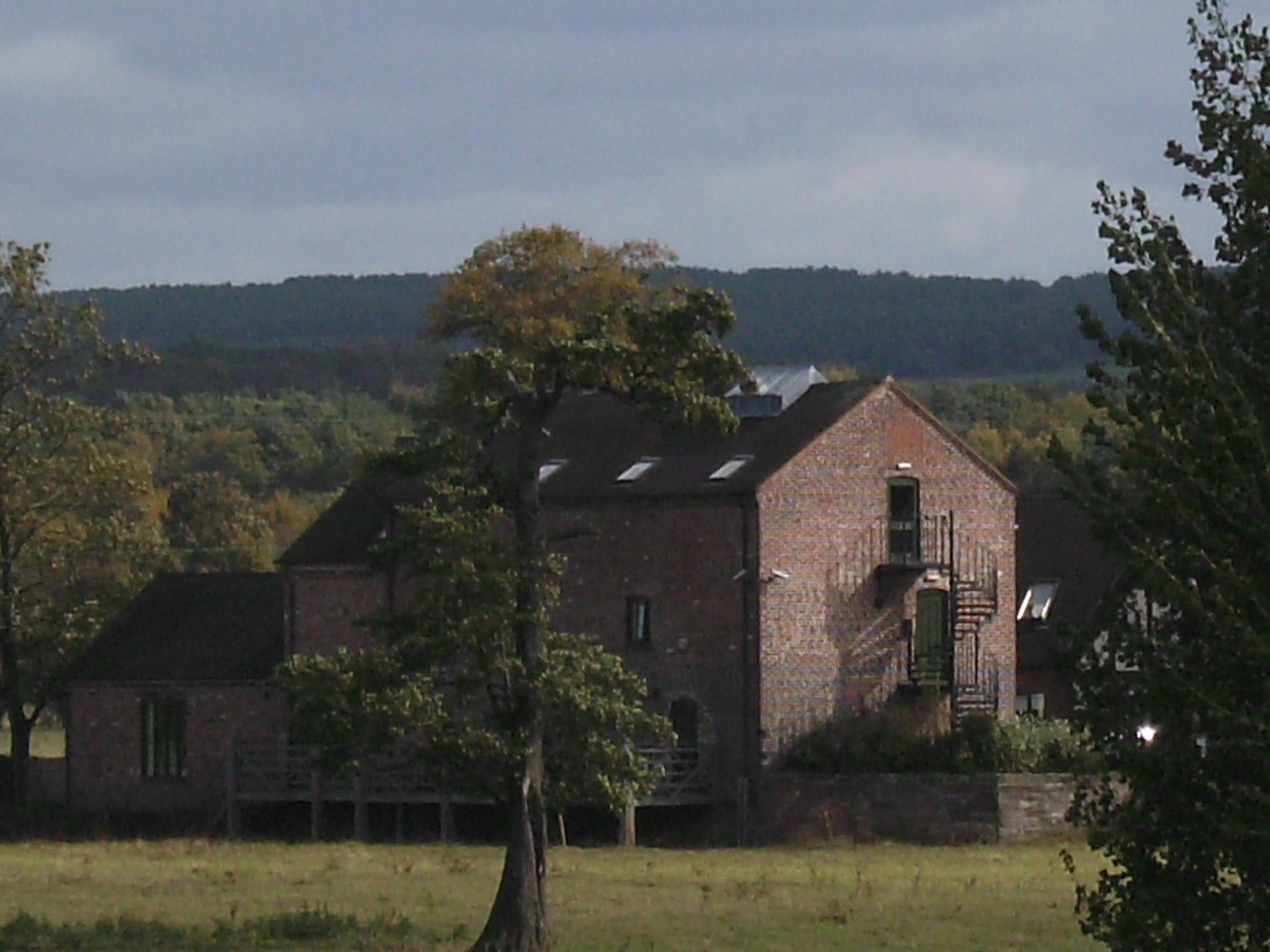 The Roller Mill, Penkridge, Staffordshire. An iron rolling in the early 19th century, it now houses a resource centre for Staffs Age UK.